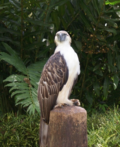 Captive Pithecophaga jefferyi, Malagos, Calinan, Davao City